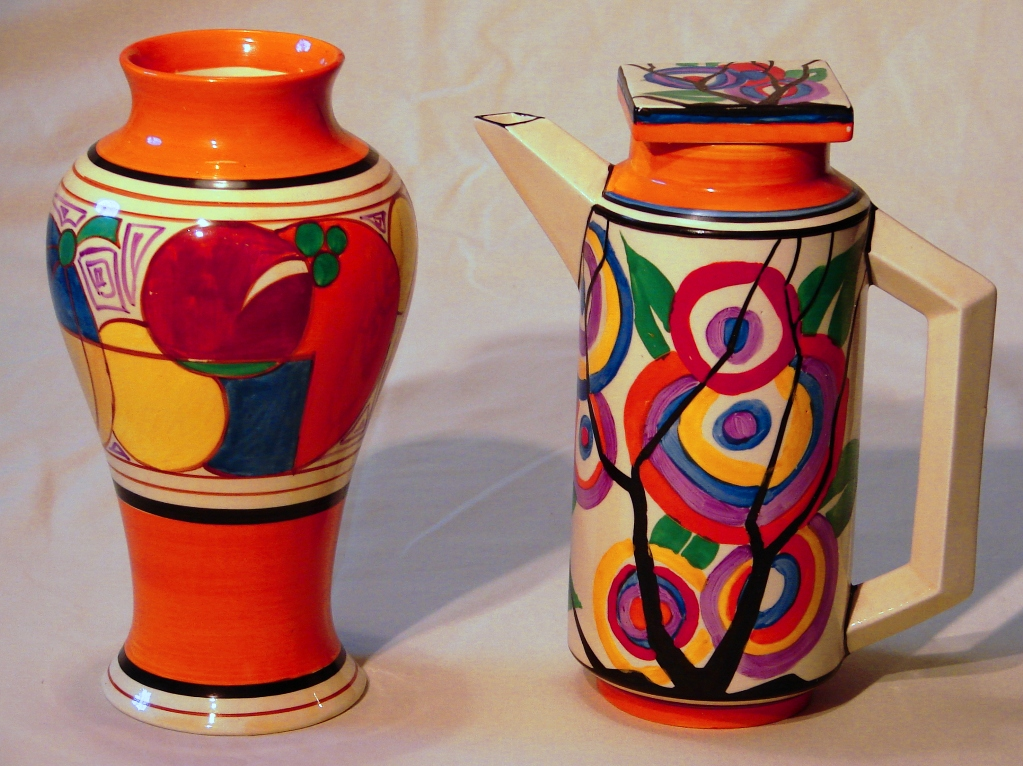 'Melon' shape 14 vase and 'Circle Tree' Eton shape coffee pot, both from 1930